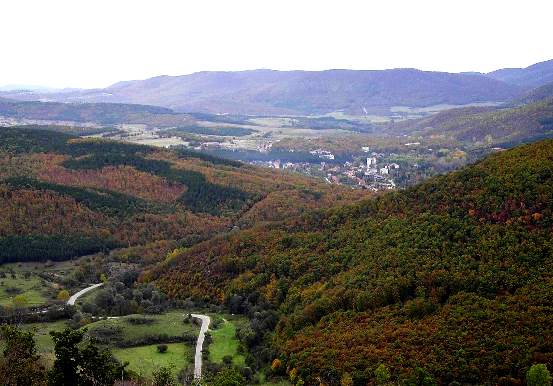 Stara Zagora mineral spa-general view 01